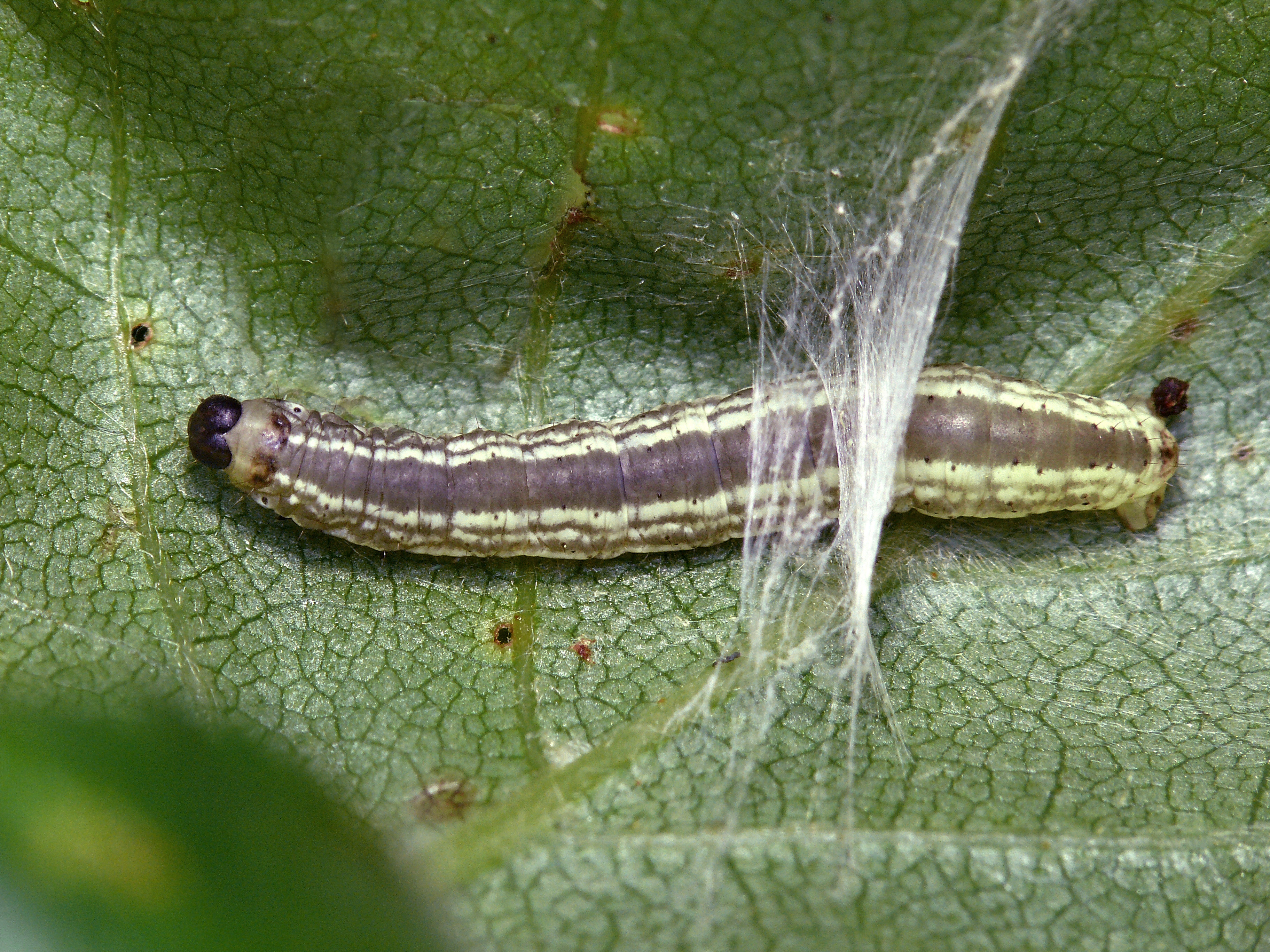 Uffmoor Wood, Worcestershire, April '09 off Birch.